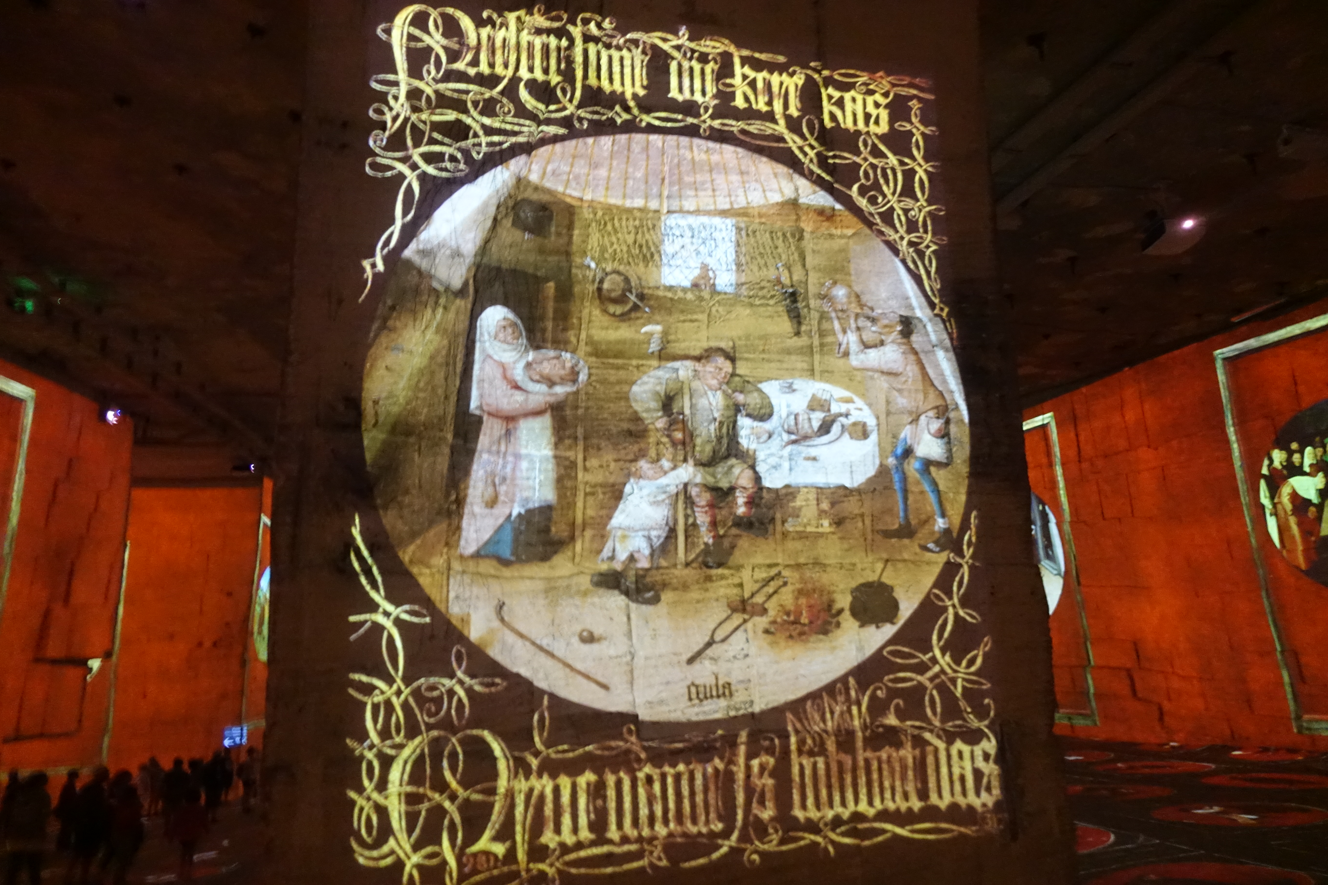 Carrières de Lumières in 2017, France